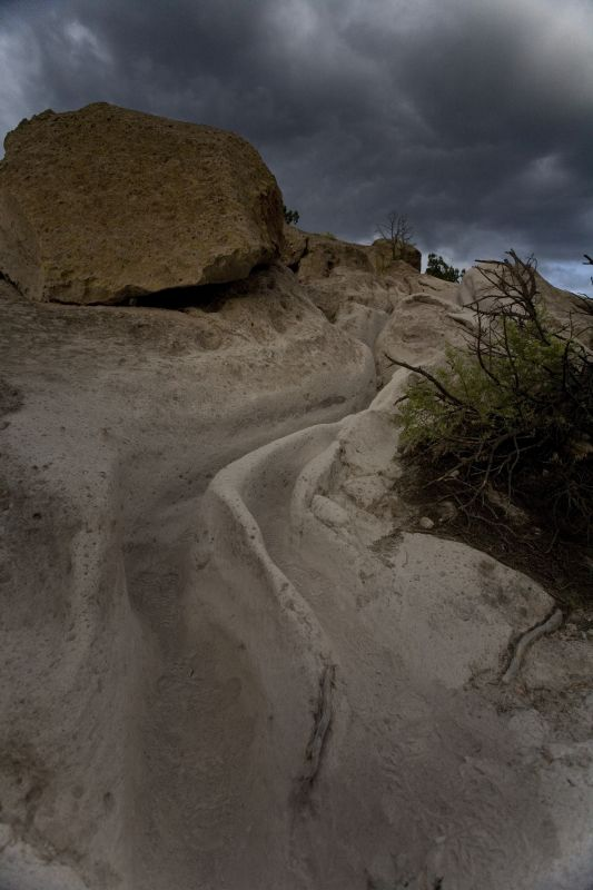 Tsankawi, well-worn pathway in tuff.